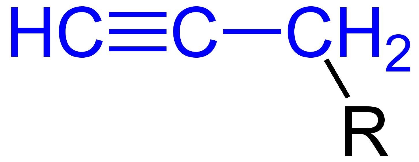 Propargyl_group